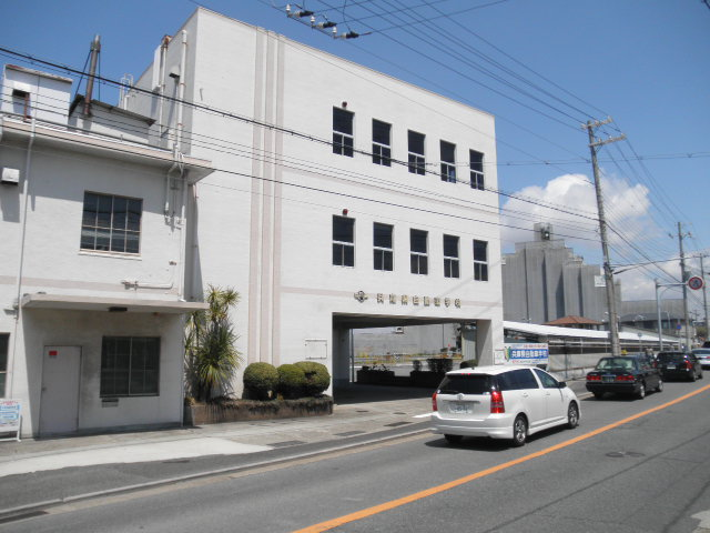 Hyogo driving school Akashi school